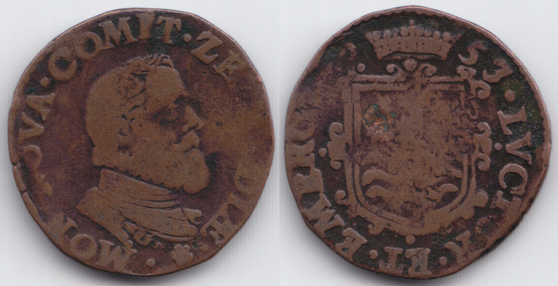 Coin oord (double duit), 1653 - Netherlands, province of Zealand. Copper, diameter 24–25 mm, weight 4.1 g. On the obverse is a portrait of Prince Maurits van Oranje.